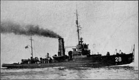 Iranian vessel Pahlavi, later renamed to Shahin